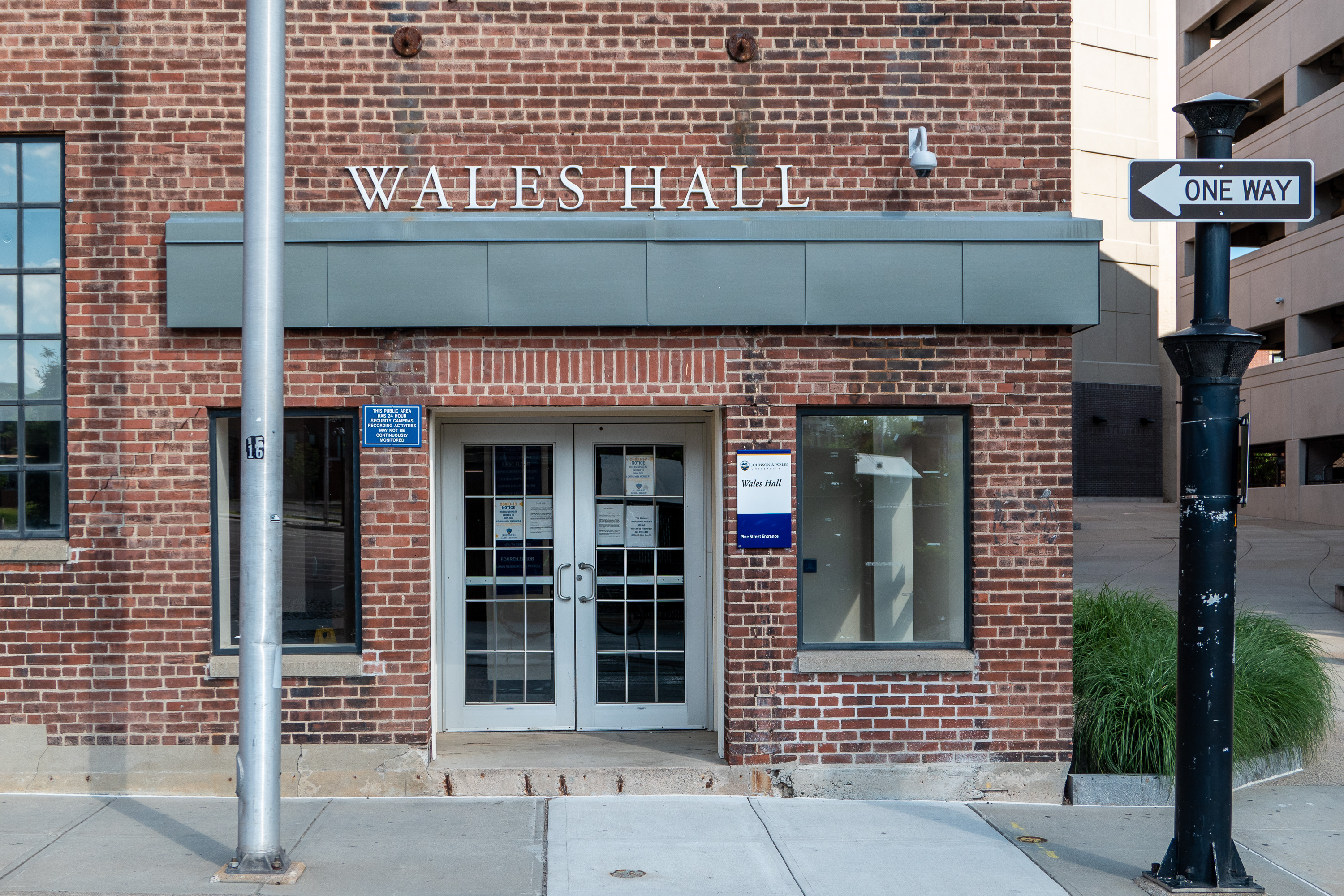 Johnson & Wales University, Wales Hall, Providence downtown